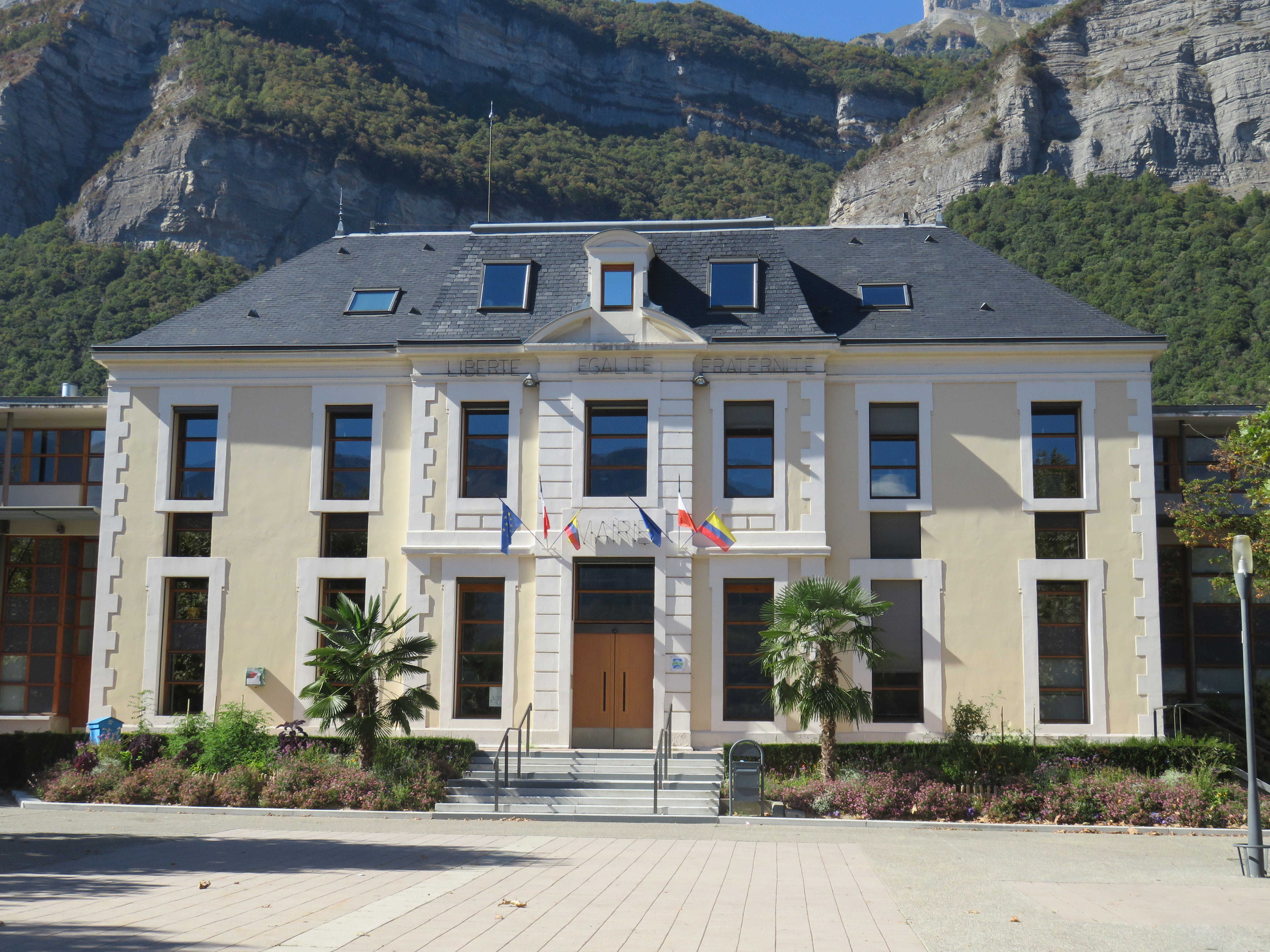 The town hall of Crolles (Isère, France) on the Place de la Mairie on September 23, 2018.